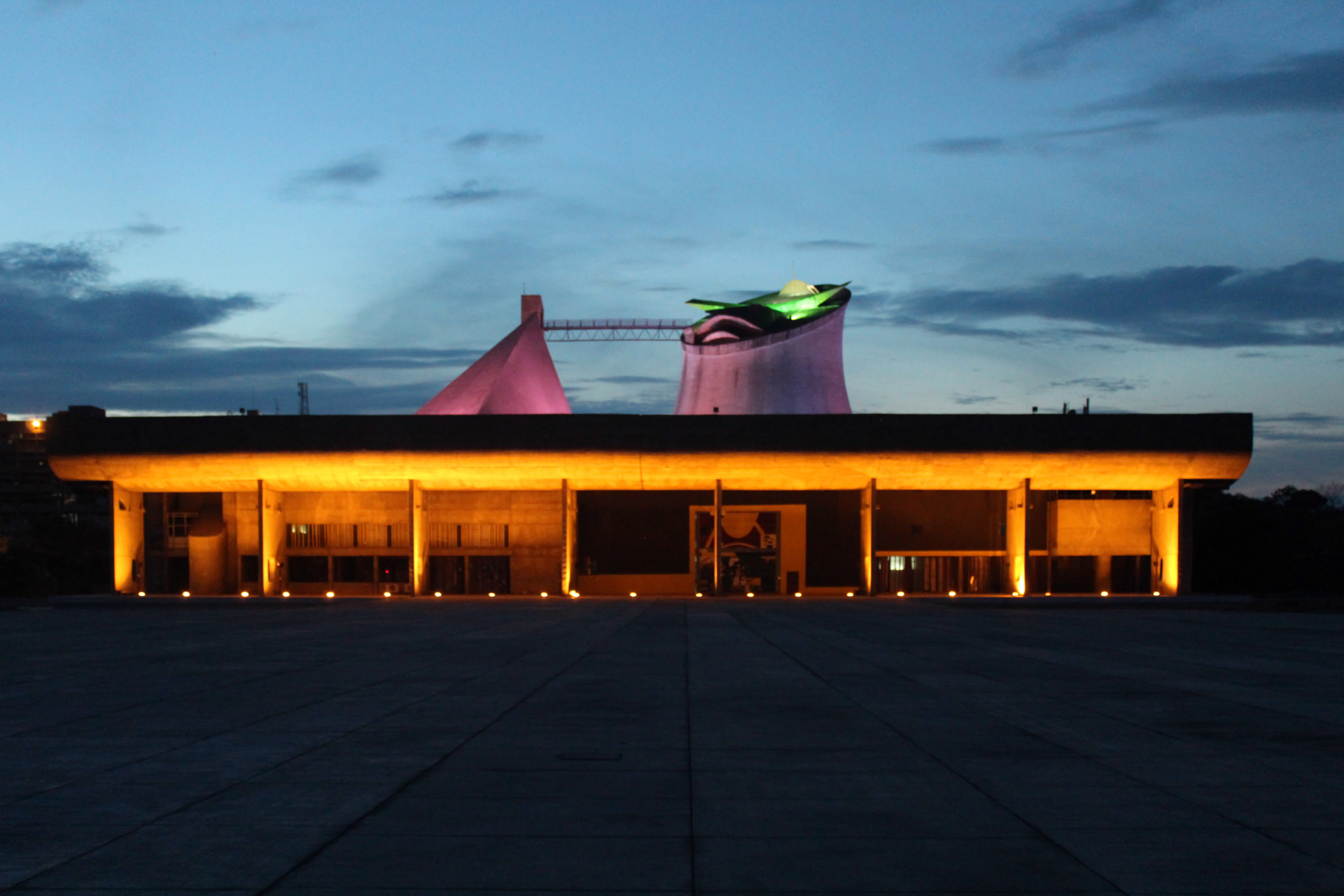 Assembly building of Hariyana and Punjab